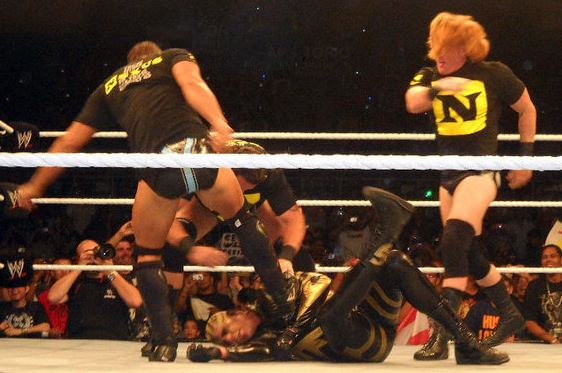 Nexus Members Justin Gabriel, Wade Barrett and Heath Slater attacking Goldust at a WWE show.